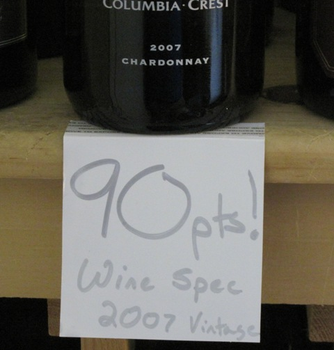 A retail wine shop tag advertizing a wine rating score